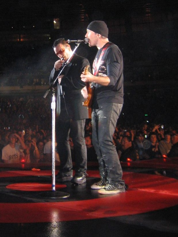 Bono and The Edge perform with U2 on the Vertigo Tour in Auckland